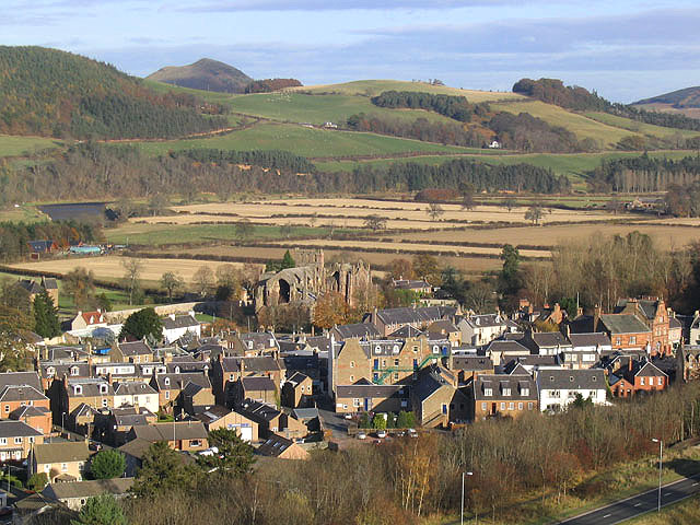 Melrose Town Centre from Quarry Hill A view of the town from Quarry Hill with Melrose Abbey prominent in the centre. The medieval and early modern town of Melrose grew up at the gates of the abbey. The earlier buildings at the abbey between 1136 and 1385 are constructed largely of volcanic agglomerate, mainly obtained from the old quarry on the north face of Quarry Hill. Rich farmland by the River Tweed is beyond at Gattonsidehaugh. The distinctive hill on the skyline to the left is the Black Hill near Earlston. A small section of the Melrose Bypass road (A6091) on the route of the former Waverley Railway Line is on the bottom right corner.